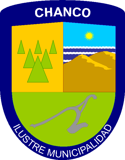 Coat of arms of Chanco, Chile